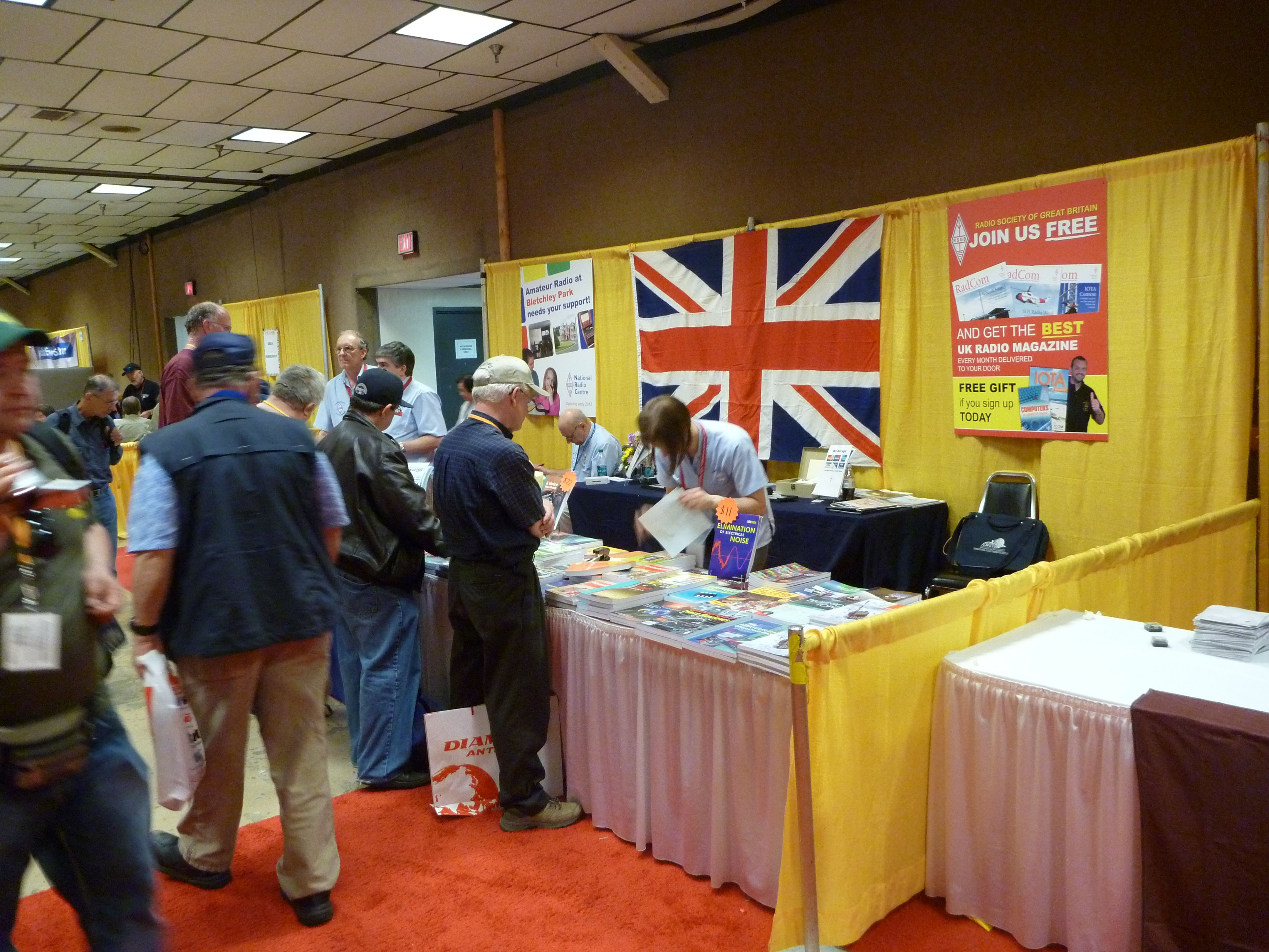 RSGB booth.